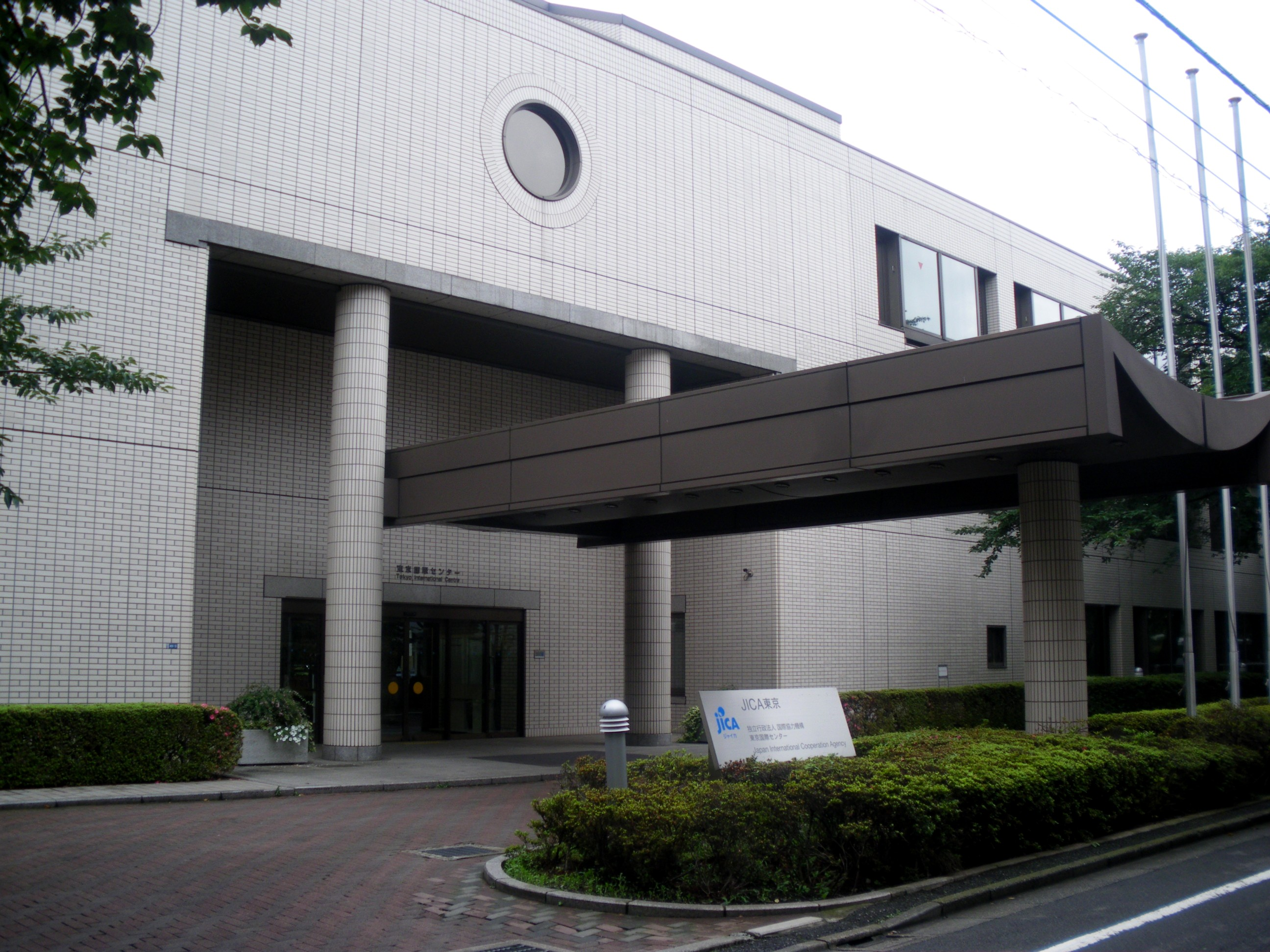 JICA Tokyo(Nishihara,Shibuya,Tokyo)